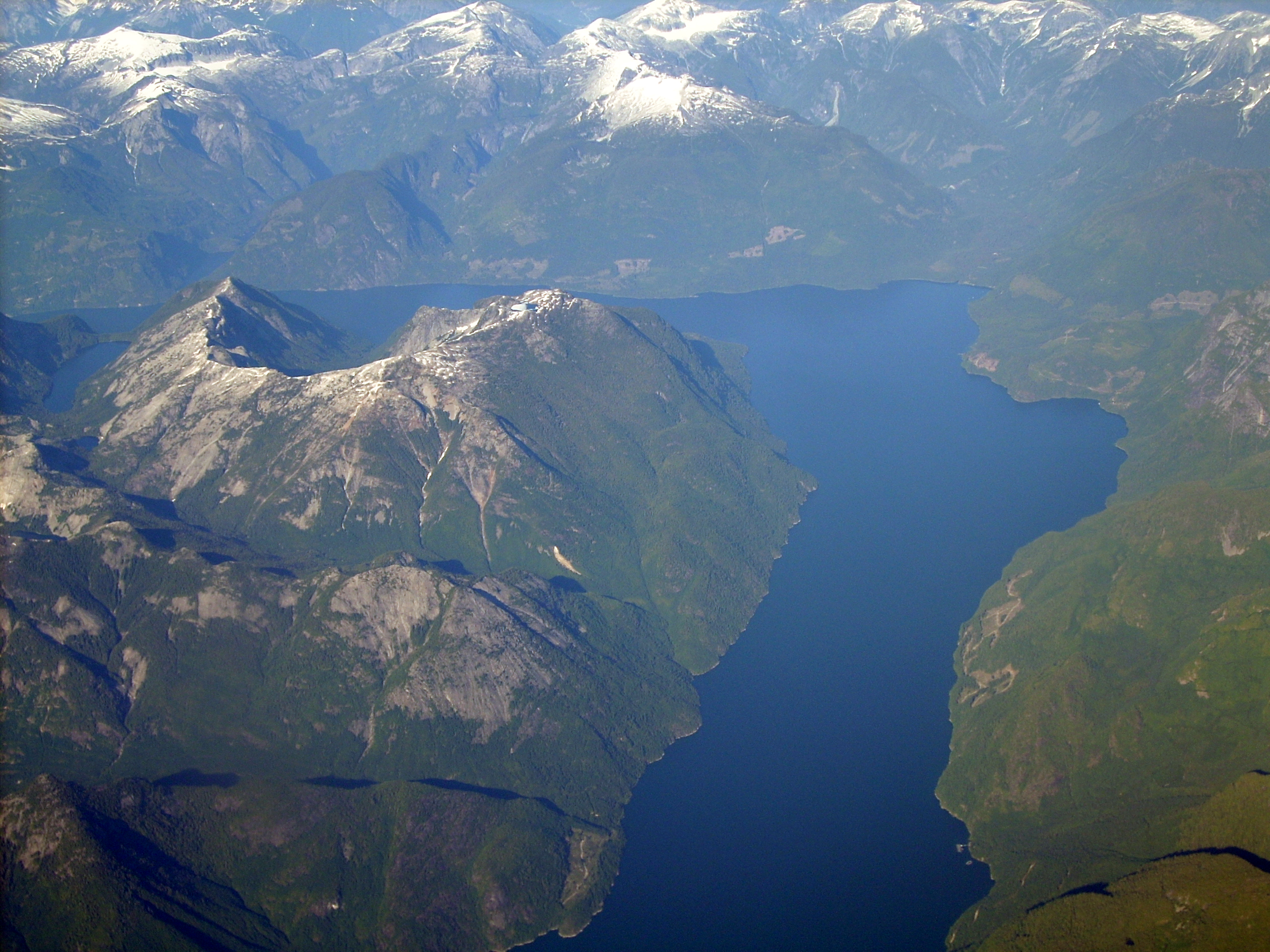 Behind Mount Fredrick William as seen from 20,000 feet.